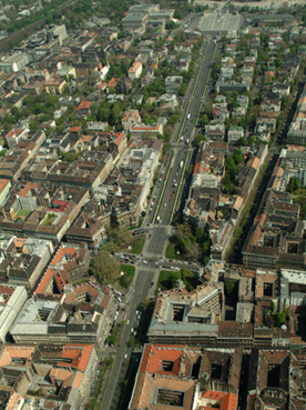 Andrássy út, Kodály and Heroes Squares section, Budapest, Hungary, aerialphotography